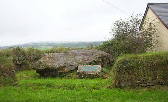 Devil's Quoit Near St Columb Major This large Stone is said to be the capstone of a Dolmen.